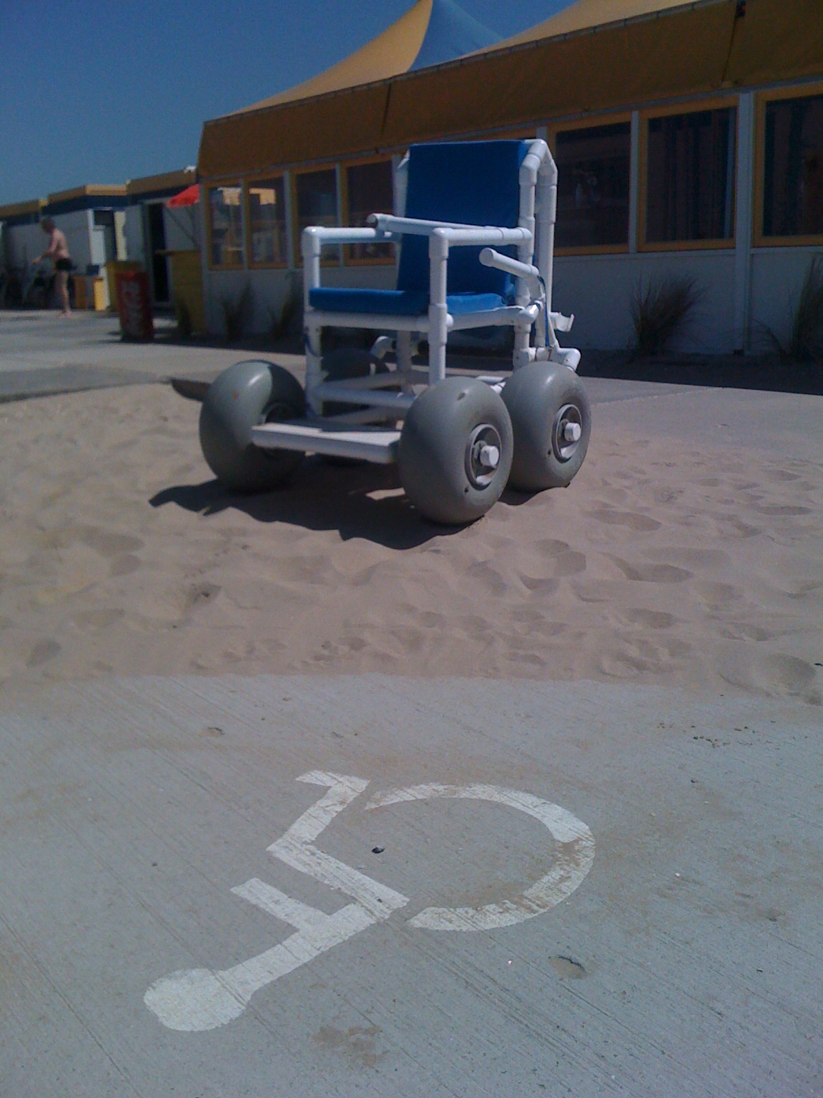 Wheelchair designed with wide wheels for travelling on beach sand. Available to rent to use at this beach, in the Netherlands.